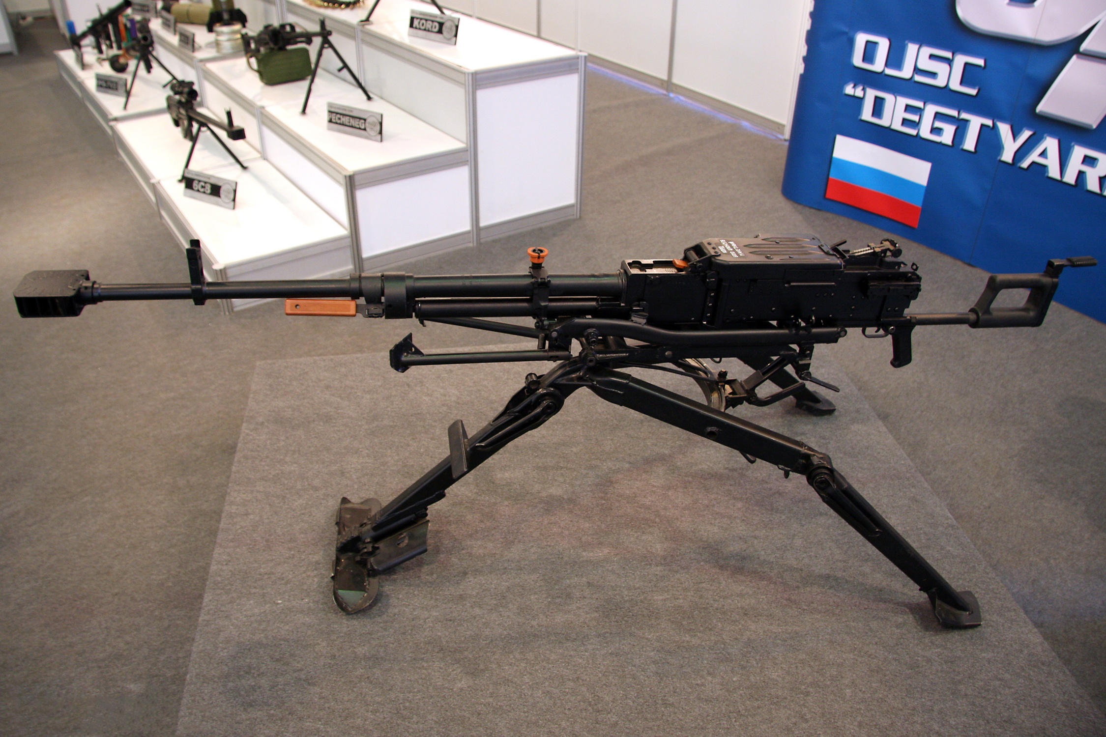 6P60 12.7-mm machine-gun on infantry mount 6T20 - Engineering technologies-2010